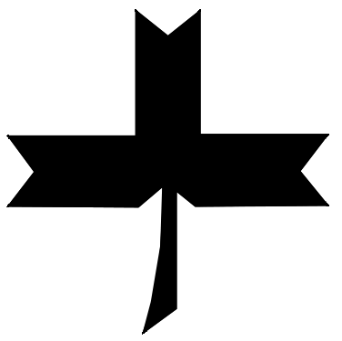 Emblem of Croatian Home Guard (Domobrani) during World War II